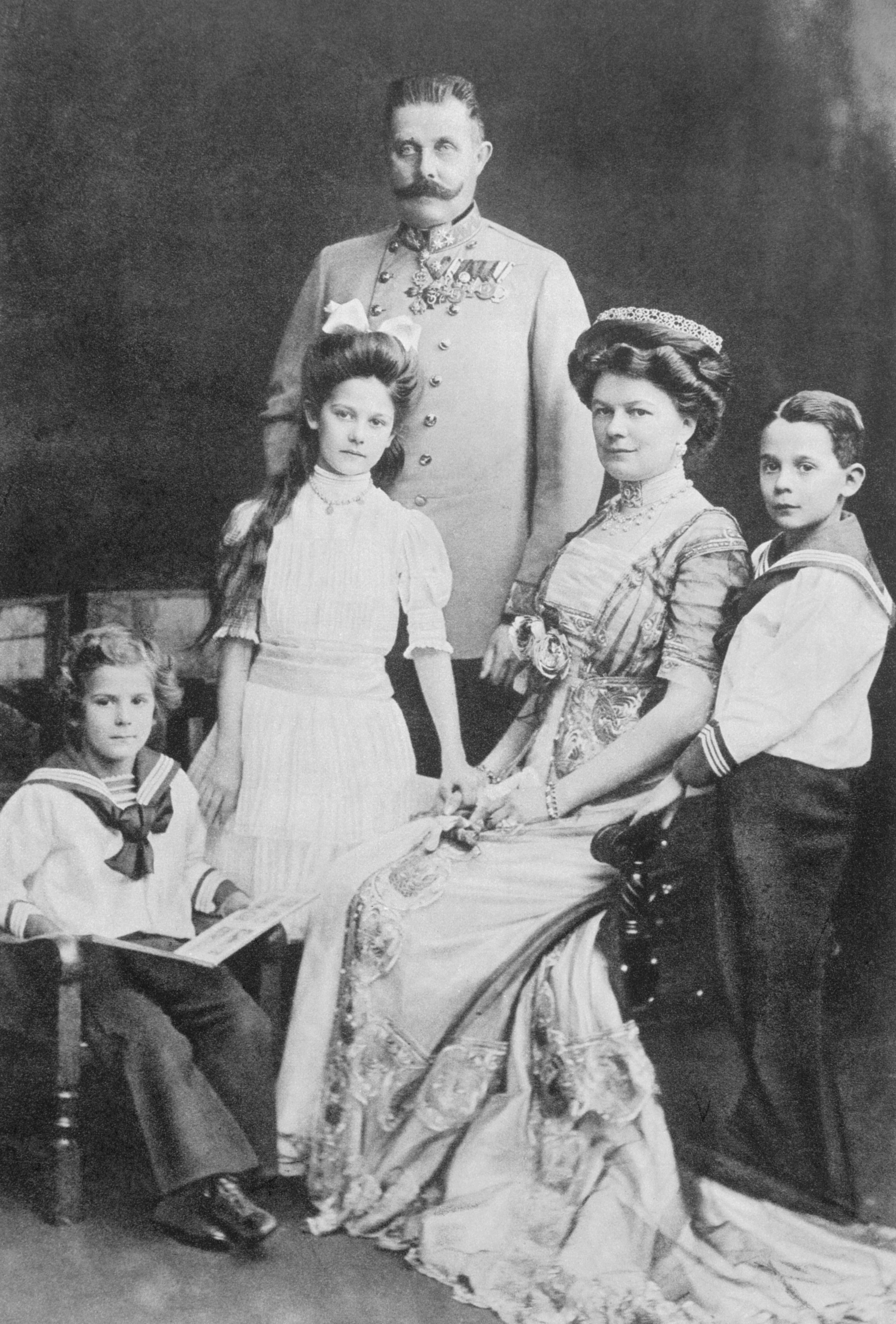 The Austro Hungarian Empire Before the First World War Archduke Franz Ferdinand, heir to the Austro Hungarian Emperor, with his wife Sophie, Duchess of Hohenberg and their three children, Princess Sophie, Maximilian, Duke of Hohenburg and Prince Ernst von Hohenberg. The Archduke had married his wife, a former lady in waiting to Archduchess Isabella in July 1900. Because Sophie's background was not royal, the marriage was morganatic, and the children excluded from the succession to the Austro Hungarian throne. The assassination of the Archduke and his wife during a state visit to the Bosnian capital, Sarajevo, on 28 June 1914, precipitated the First World War.